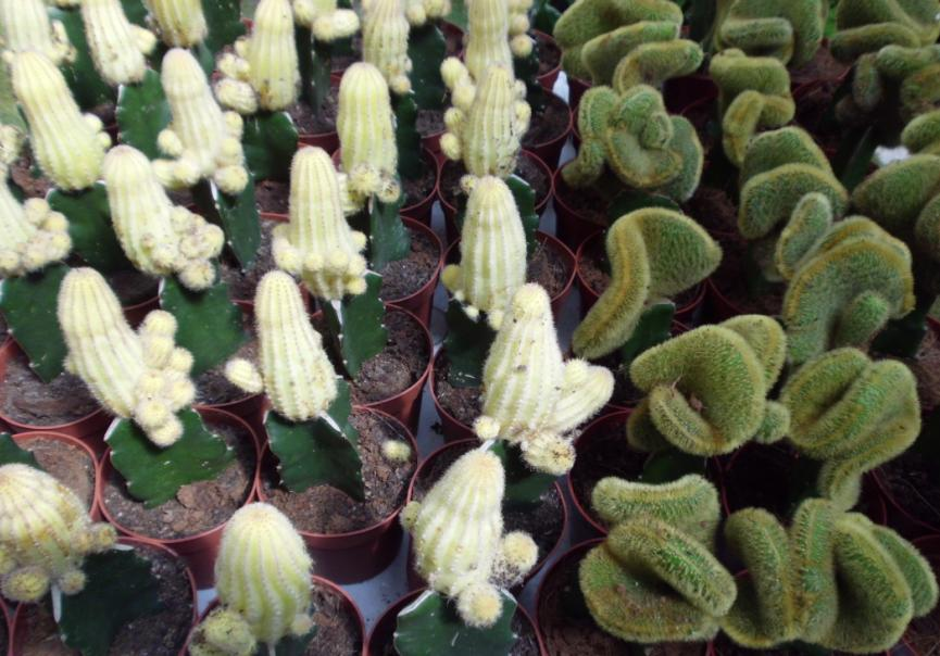 This photo taken at Orman garden (spring) - Cairo